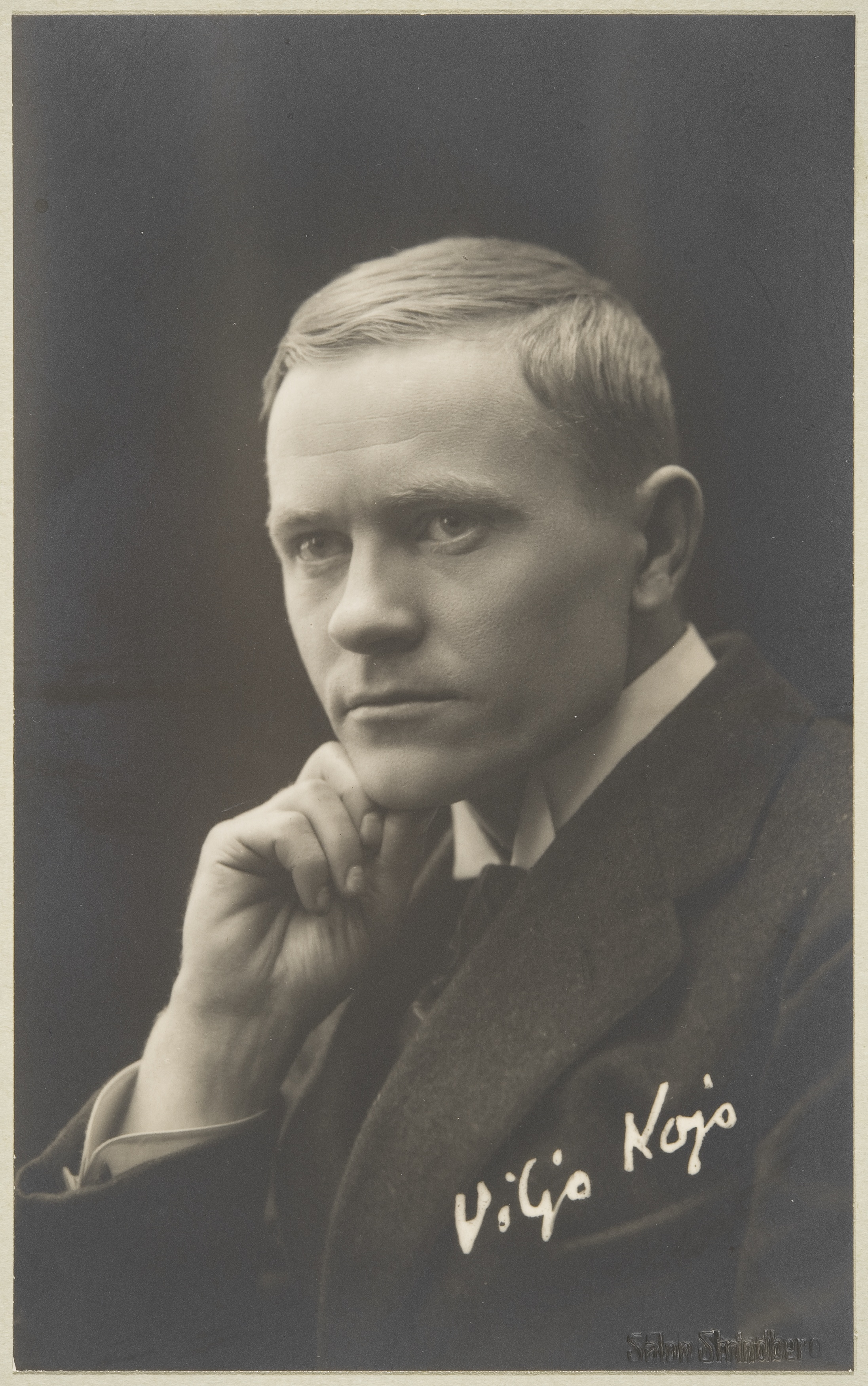 Signed publicity photograph of the Finnish writer Viljo Kojo (1891–1966).